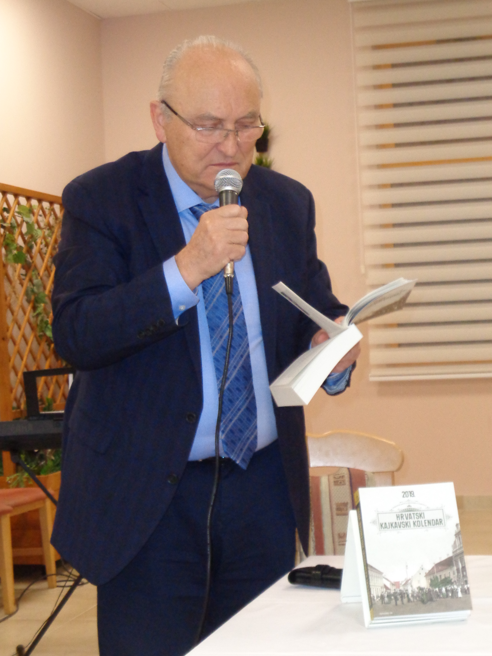 "2019 Croatian Kaikavian Calendar" book promotion in Čakovec, Croatia (Publisher: Matica Hrvatska (Matrix Croatica), Čakovec branch) on November 23rd, 2018 - Academician Dragutin Feletar speaking